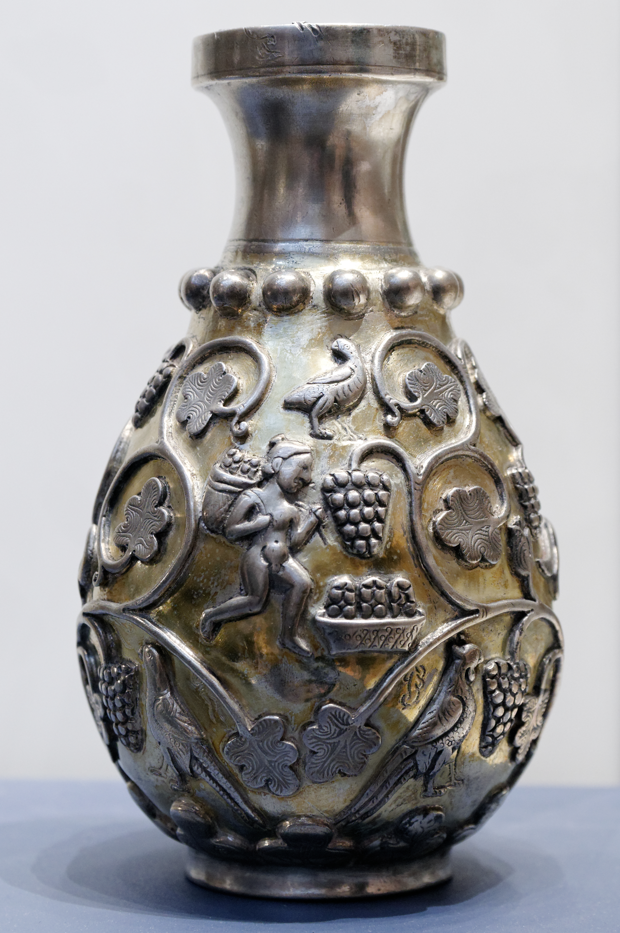 Vase with grape harvesting scenes.